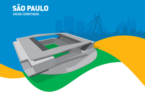 Graphic depiction of Sao Paulo and Arena Corinthians